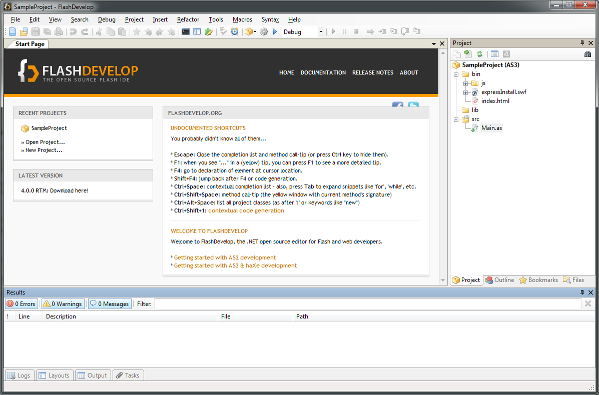 Screenshot of FD4